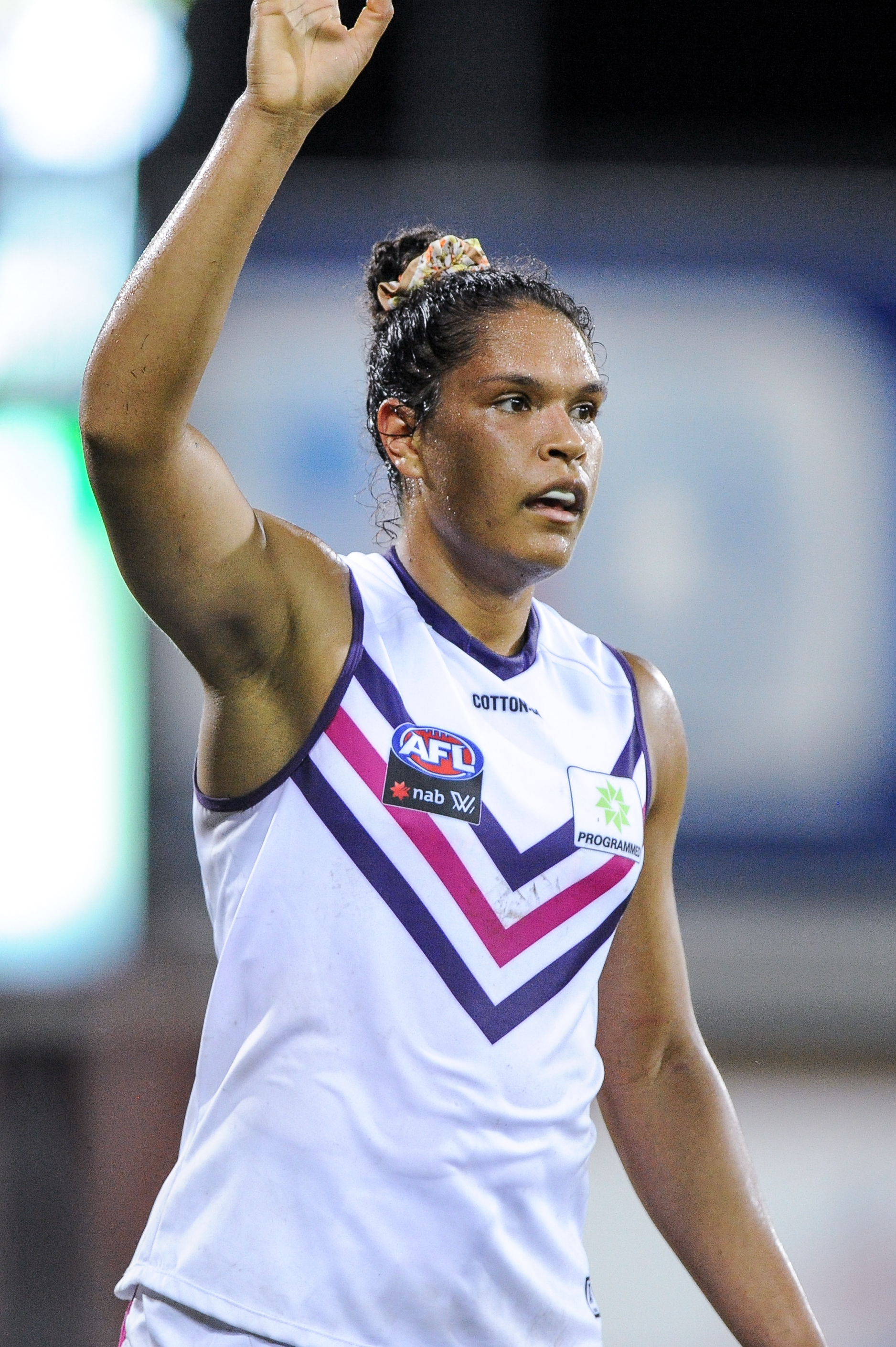 Alicia Janz in the AFL Women's preseason match between the Adelaide Football Club and Fremantle Football Club on 20 January 2018 at TIO Stadium.